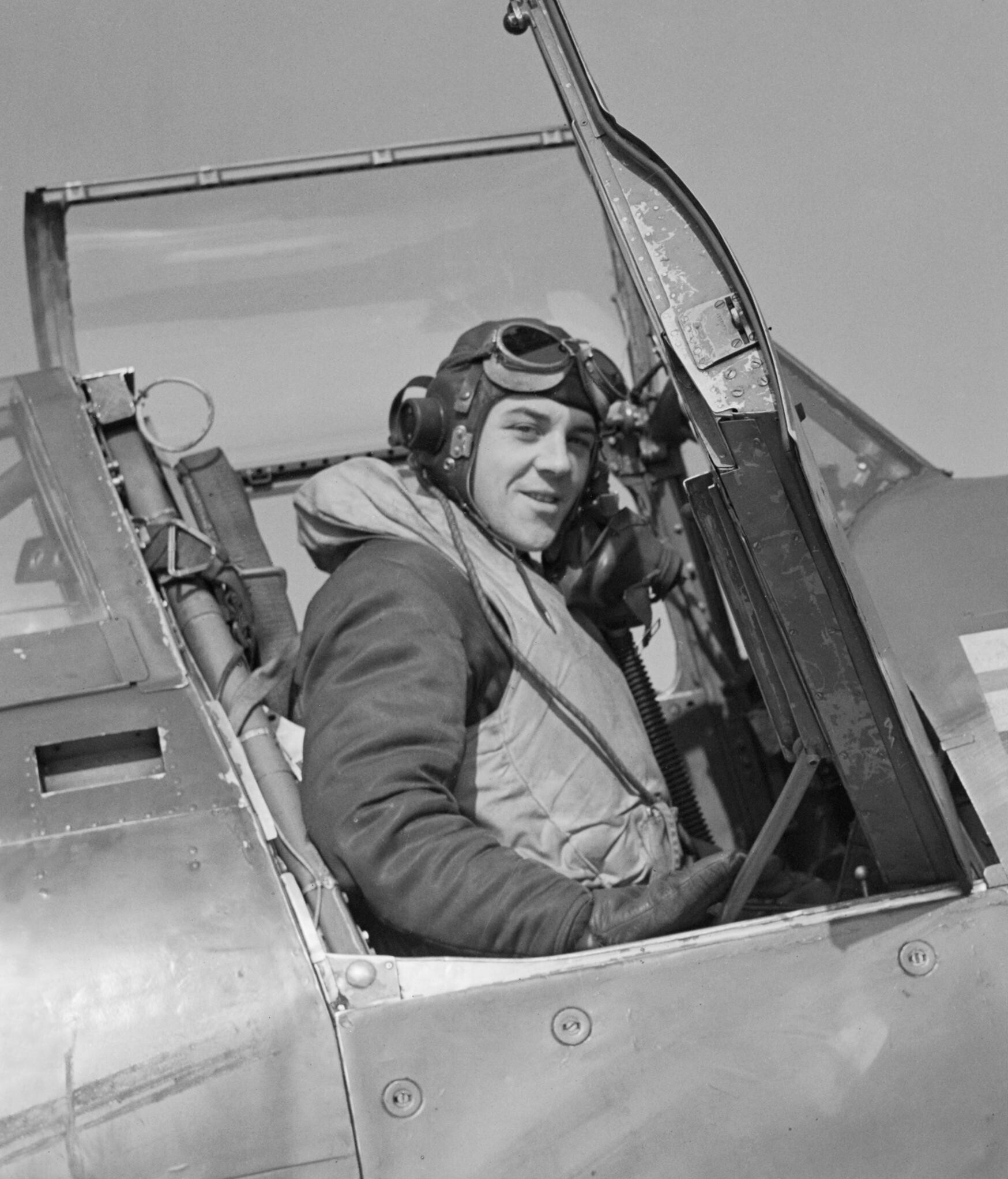 Royal Air Force Fighter Command, 1939-1945. Squadron Leader R P Beamont, Commanding Offier of No. 609 Squadron RAF, sitting in the cockpit of his Hawker Typhoon Mark IB, R7752 'PR-G', at Manston, Kent.